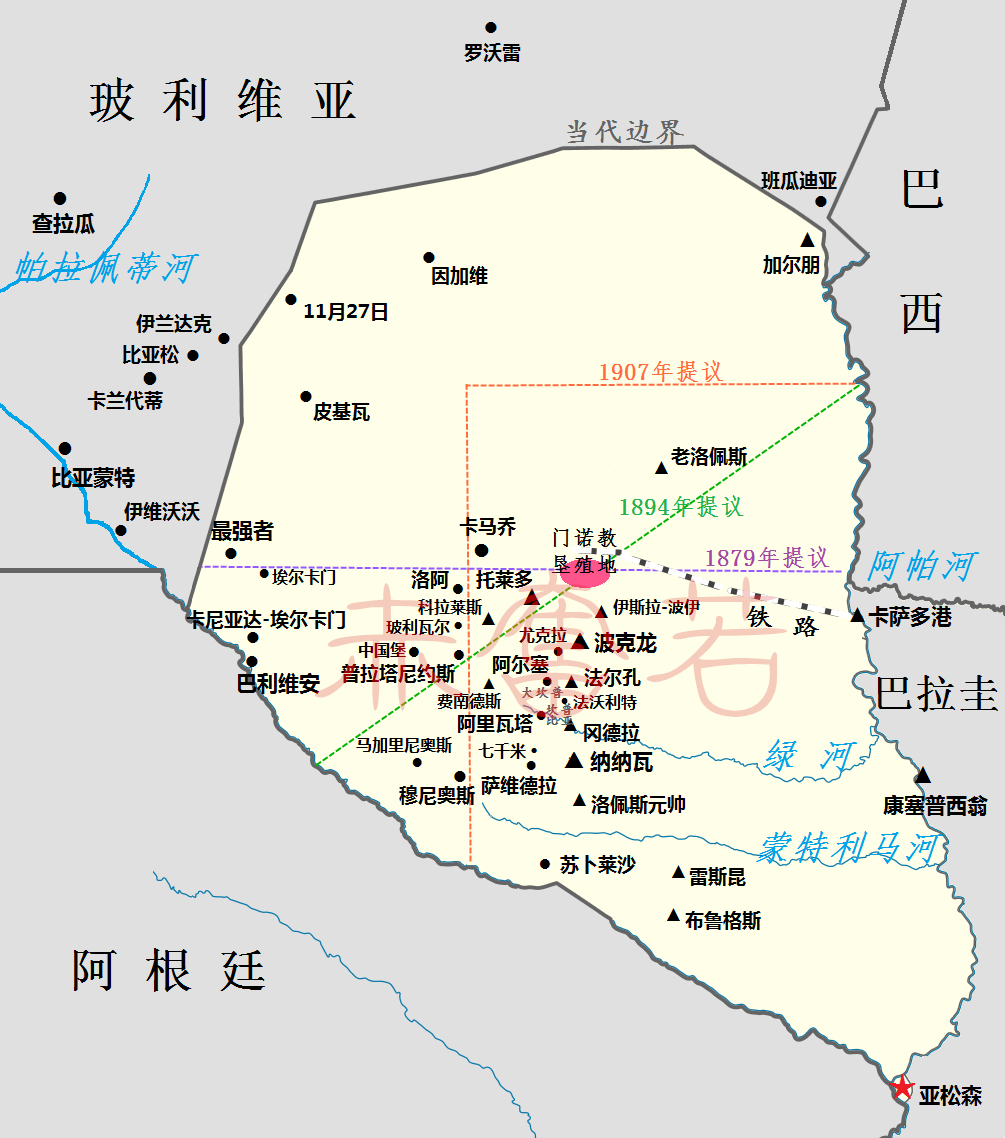 map of Chaco War (Chinese Version)